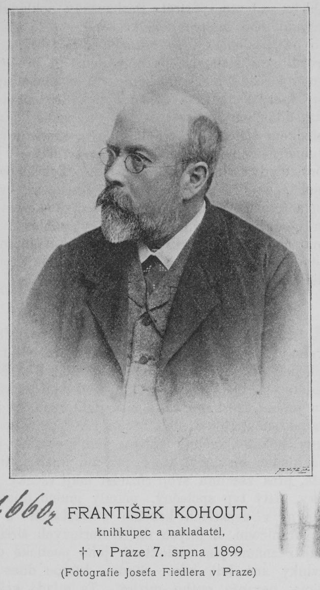 Portrait of František Kohout (1841 - 1899), Czech bookseller and publisher.